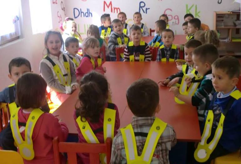 Childrens of pree school "Fluturat"